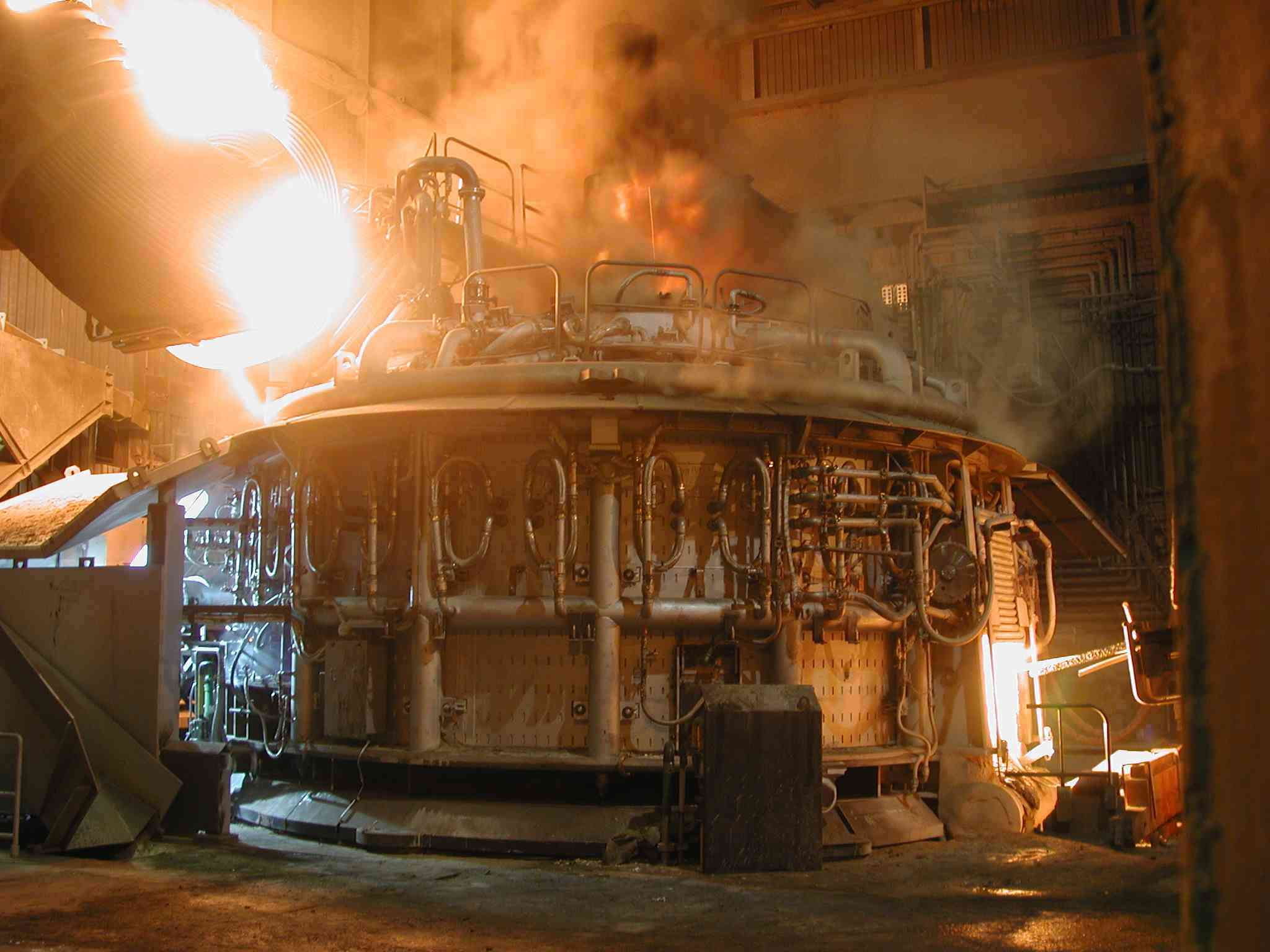 This is the electric arc furnace of Georgsmarienhütte GmbH which is located in the steel plant in Georgsmarienhütte, Germany.